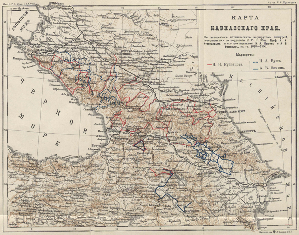 Map of Caucasus with route of Botanical expeditions of N. I. Kuznetsov (red), N. A. Busch (blue dotted line)& A. V. Fomin (blue) (1888-1890)